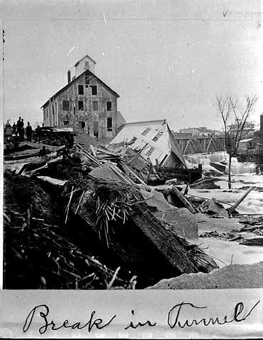 Break in the tunnel, St. Anthony Falls.